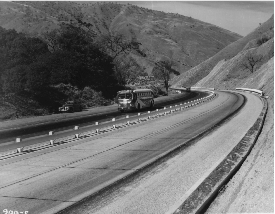 This is a 1943 photo from the Caltrans site, showing the Ridge Alternate down Grapevine grade. It is looking north at the curve to the left after the Fort Tejon exit; this can be confirmed by comparing the mountain in the background with about 1/5 through this Caltrans photolog file (thus about postmile 6 in Kern County).